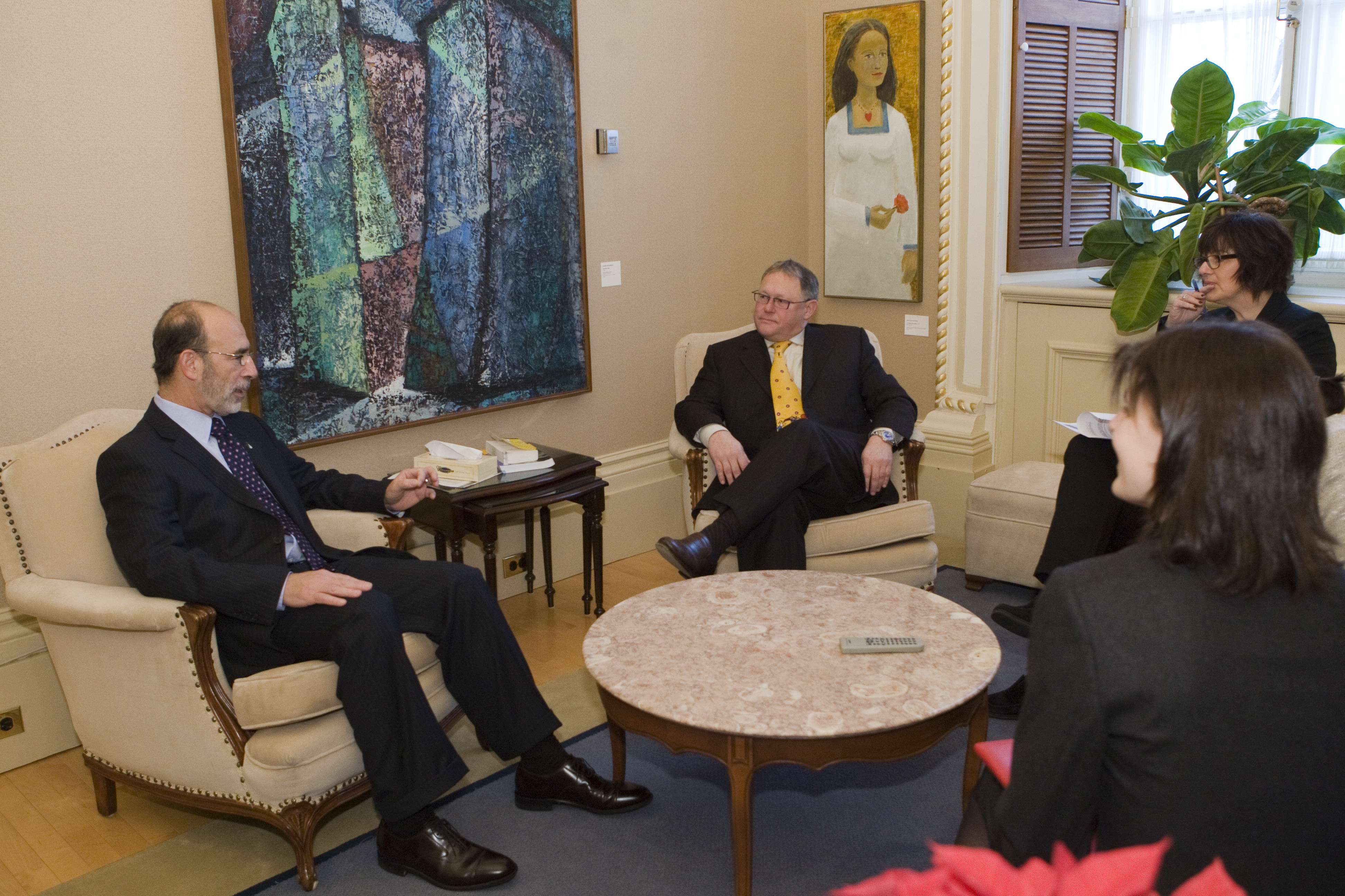 Jacques Chagnon, President of Québec National Assembly On December 1 and 2, 2011, CG Andrew C. Parker went to Québec City for a protocol visit